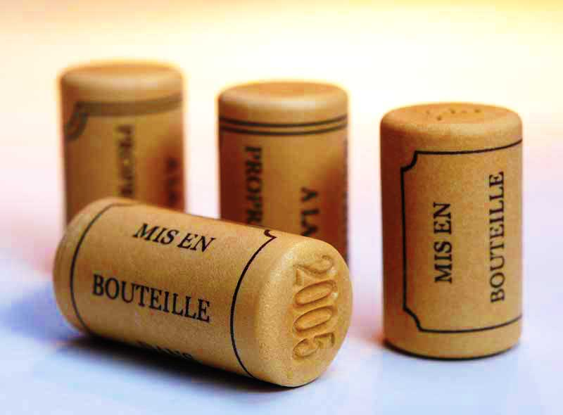 synthetic wine closure vinova